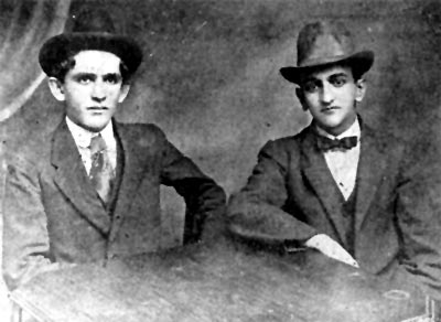 The writer and philosopher Fernando González Ochoa (left), with Fernando Isaza. A picture of 1915.